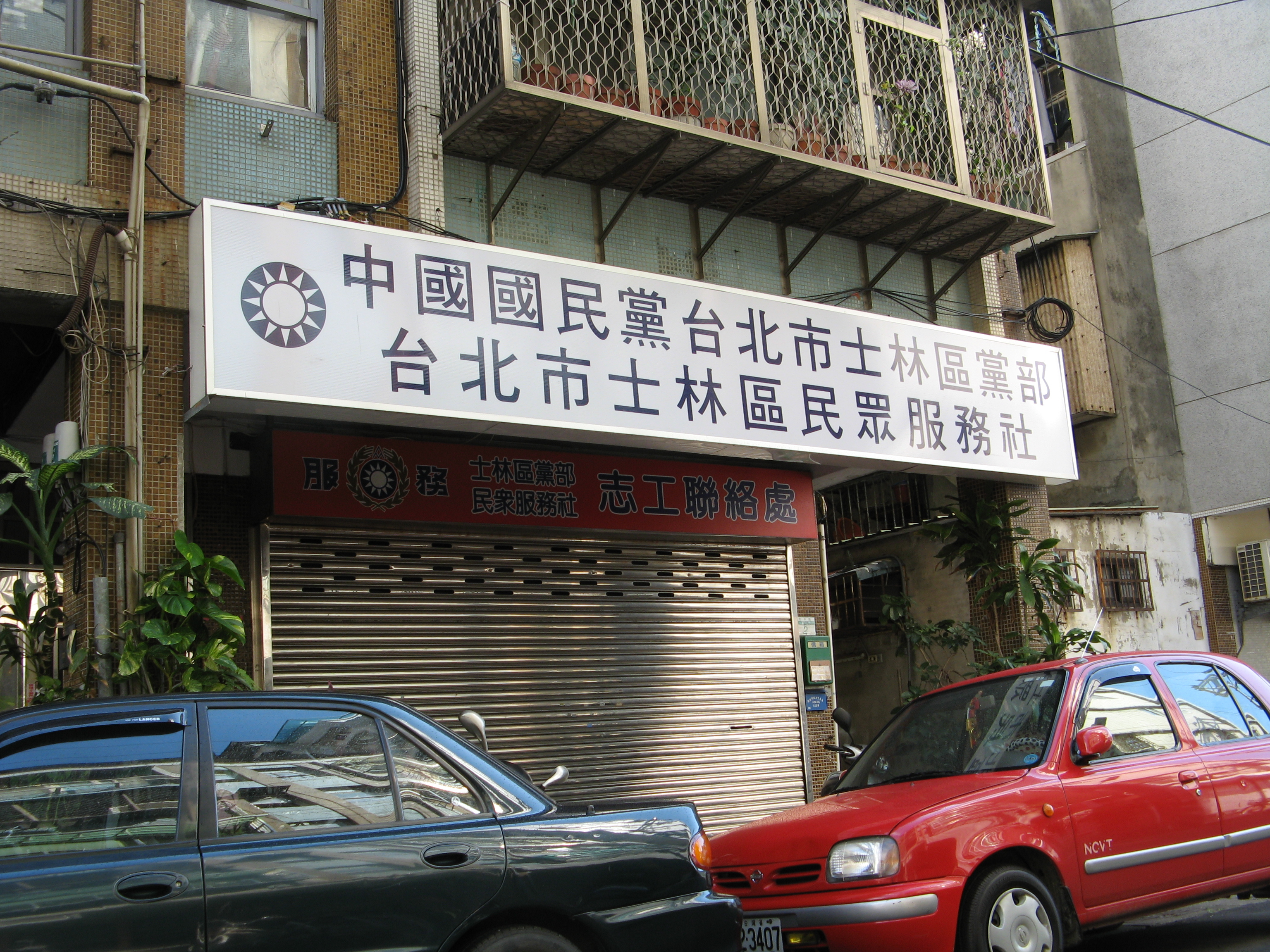 Shilin Division and Service Center, Kuomintang Taipei City Committee.